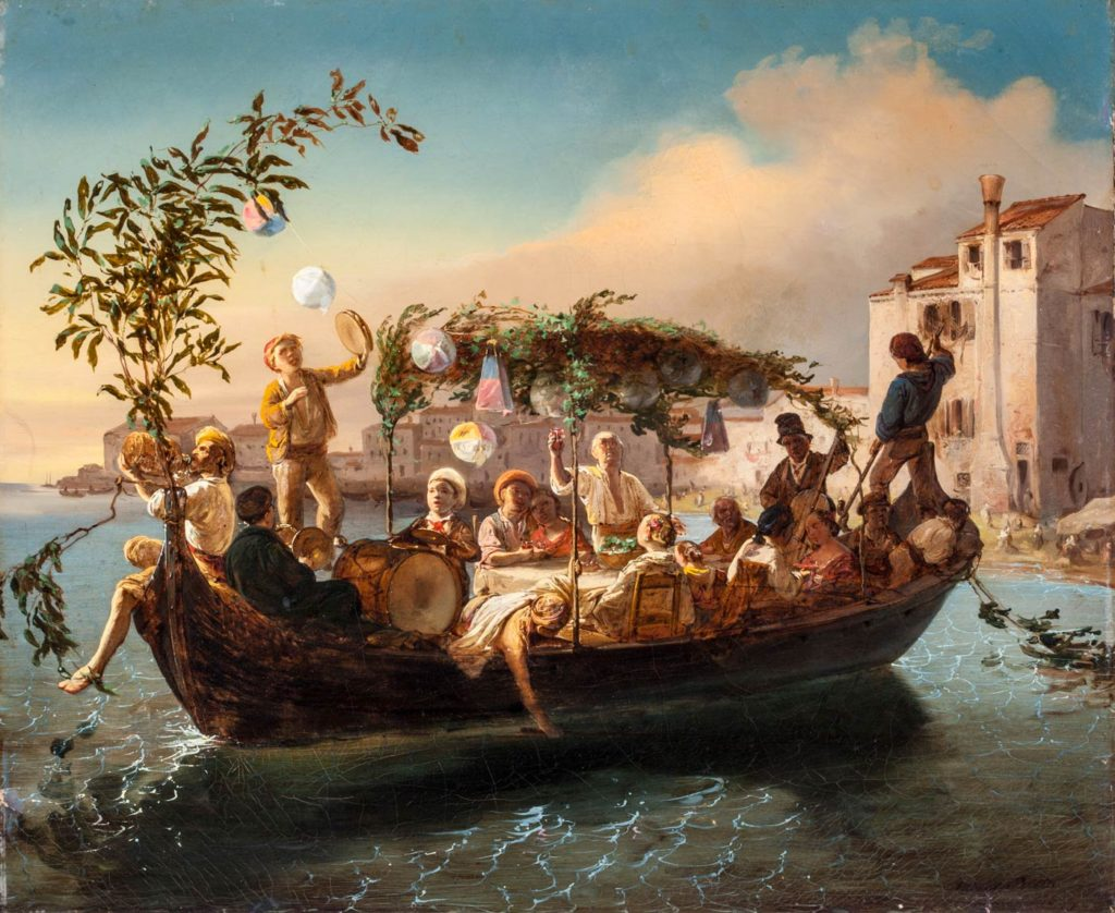 Antonio Rotta, The Feast of the Redeemer in Venice